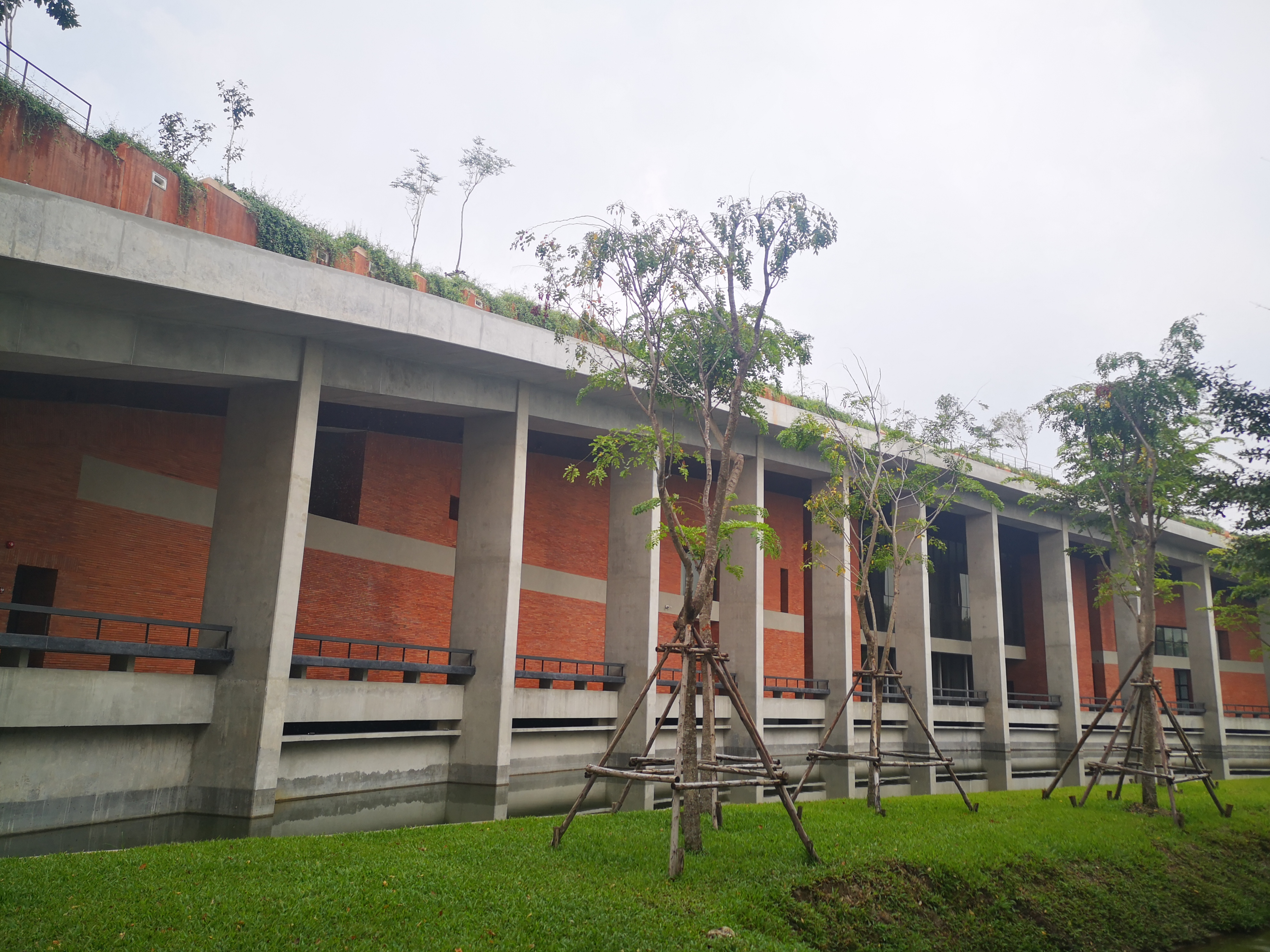 Puey Park